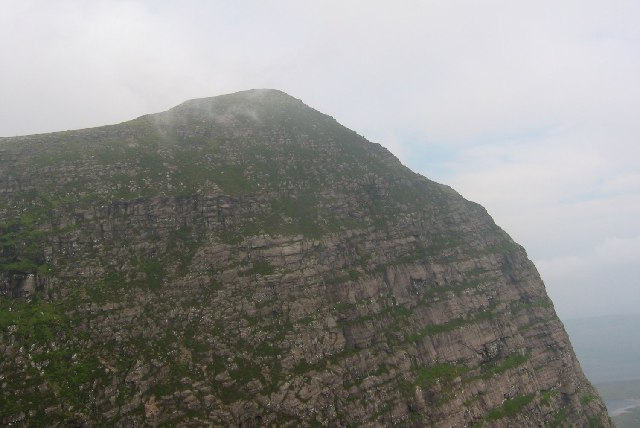 Sgurr anFhidhleir. The steep ridge from the right is a famous hard rockclimb.